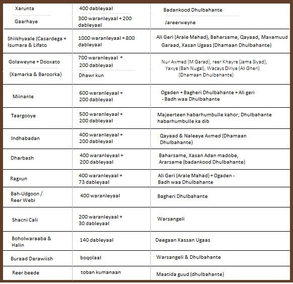 Tribal and numerical makeup of Darwiish